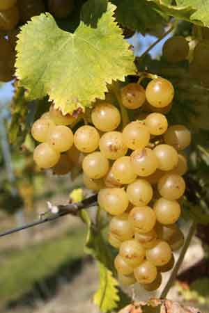 Ripe grape of Moscato giallo